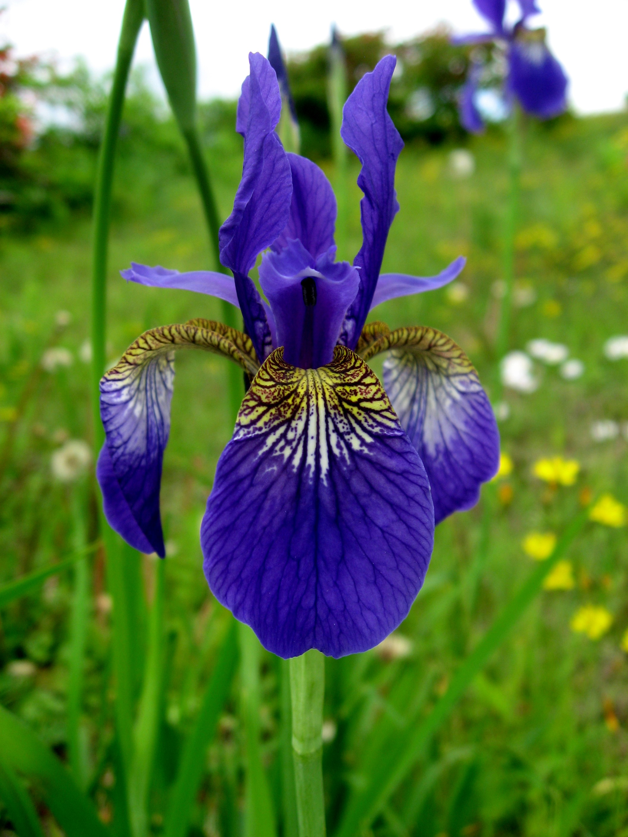 Iris sanguinea, Aizu area, Fukushima pref., Japan